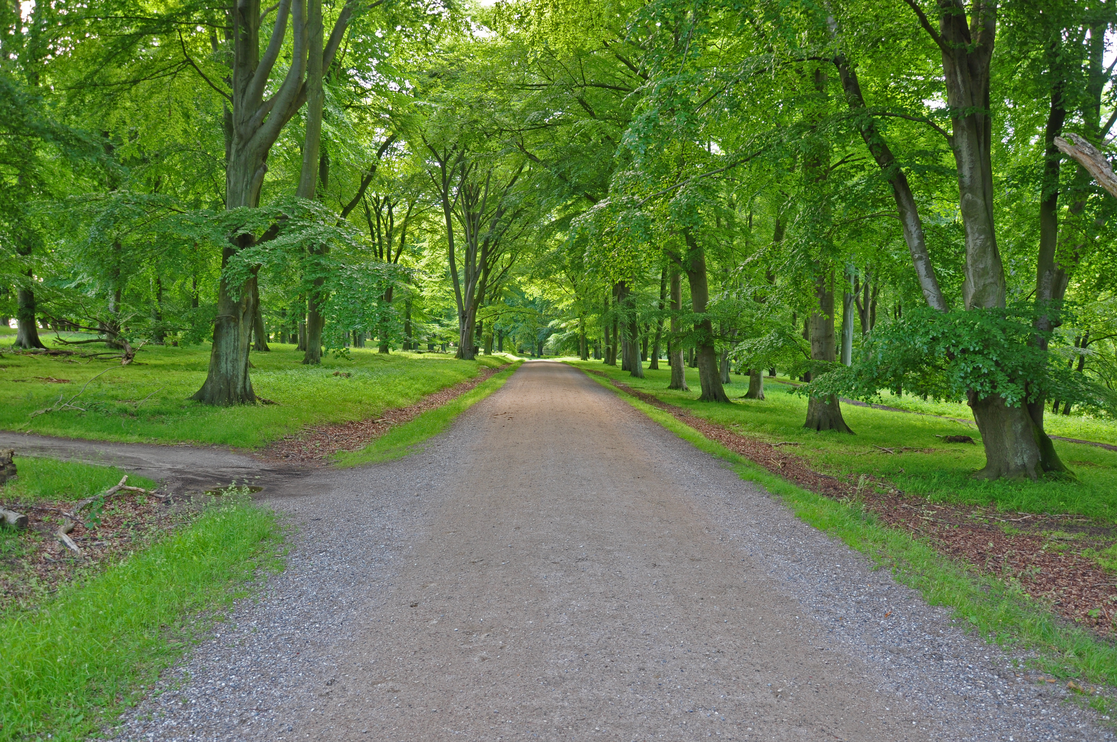 A part of the path 'Chausseen' between Rådvadport and Eremitagesletten in Jægersborg Dyrehave, Denmark.